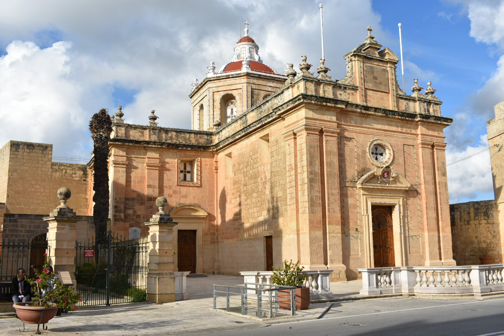 Parish Church of San Paul This media is about Maltese cultural property with inventory number 01883.